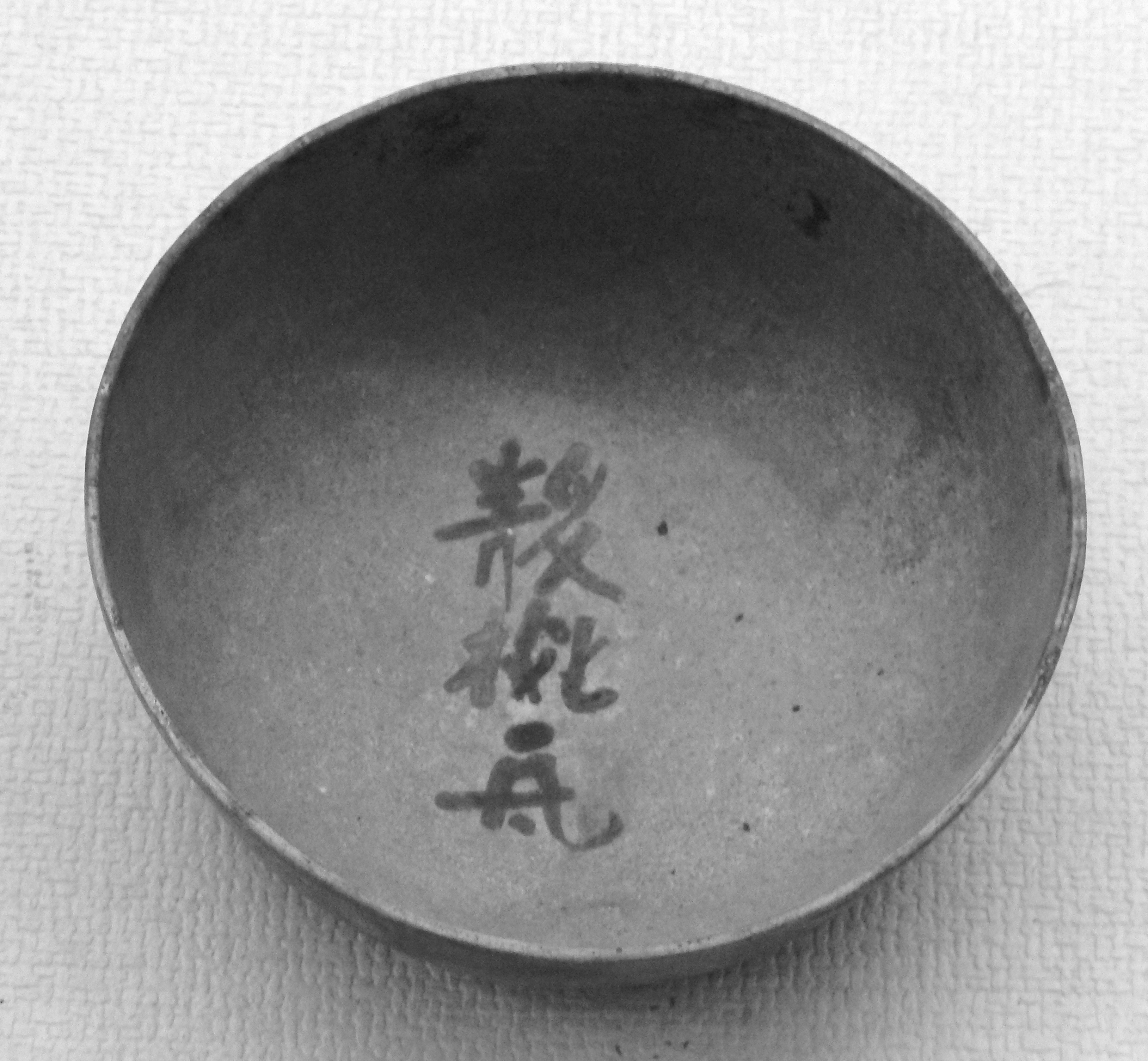 Western Xia silver bowl with Tangut inscription 𘕕𗍬𗸕 meaning "three and a half taels" (= Chinese 三两半). On display at the Xixia Museum. Find site not indicated.